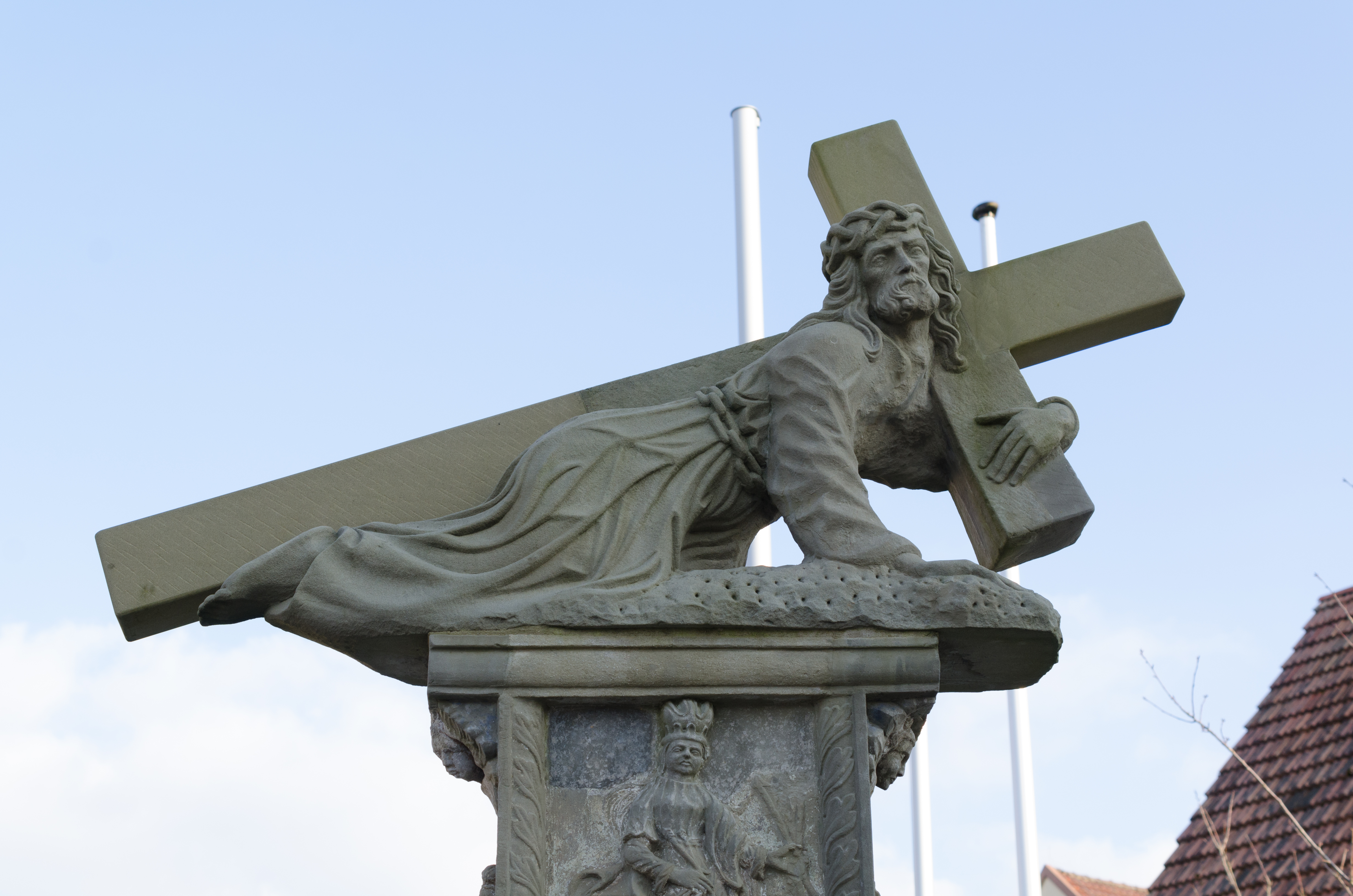 Google Maps - Google Earth